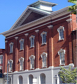 Ford's Theatre, Washington.45px.